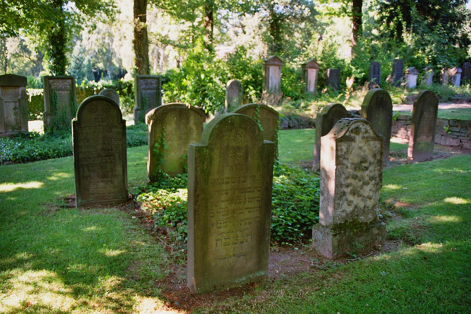 Jewish cemetery in Ibbenbüren, Kreis Steinfurt, North Rhine-Westphalia, Germany. The cemetery is a listed cultural heritage monument.